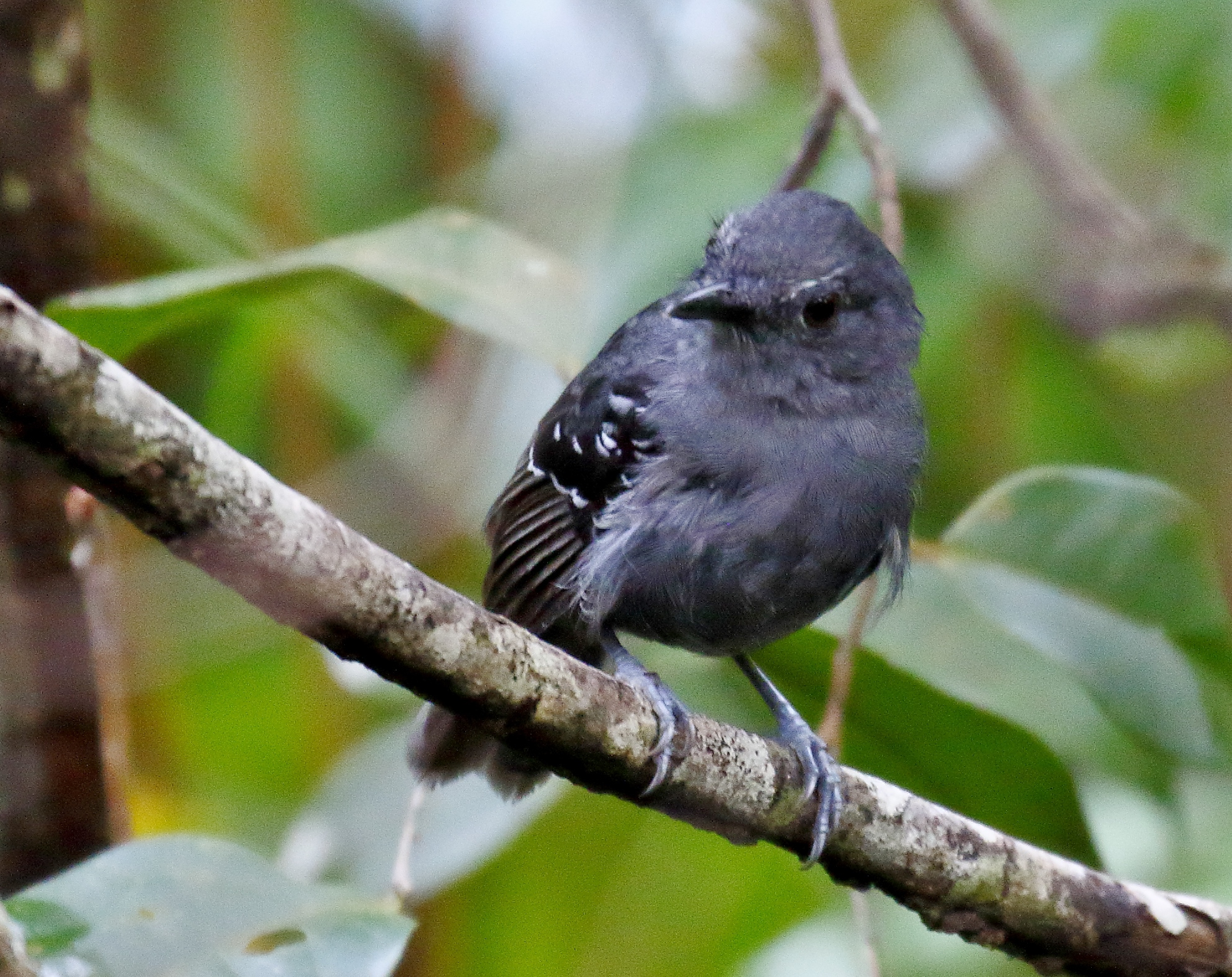 Belem antbird (male) at Barra de São Miguel, Alagoas, Brazil